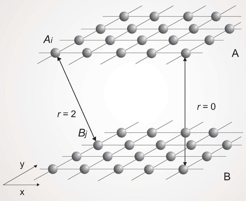 Spatially Interdepent Networks